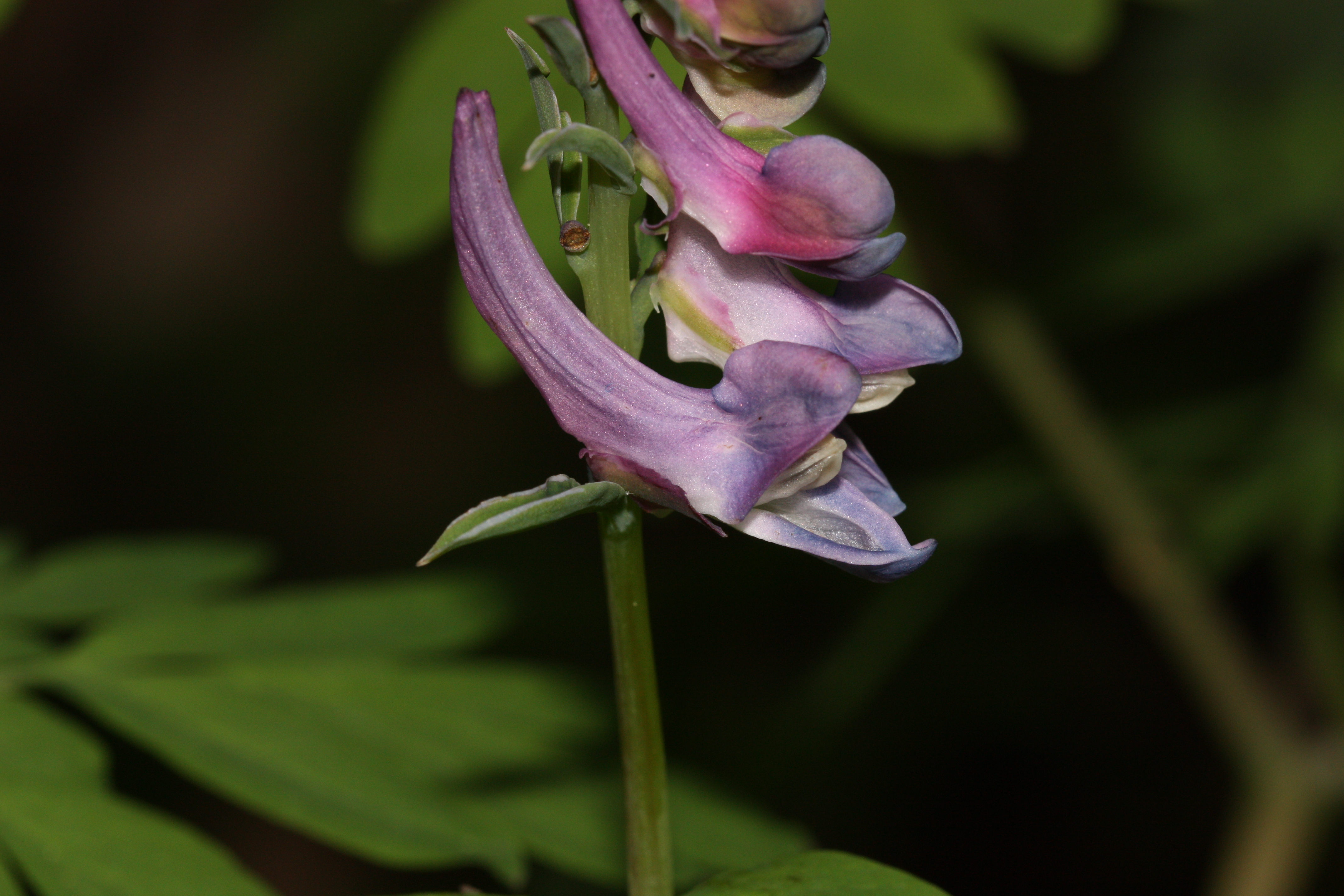 Scouler's Fumewort